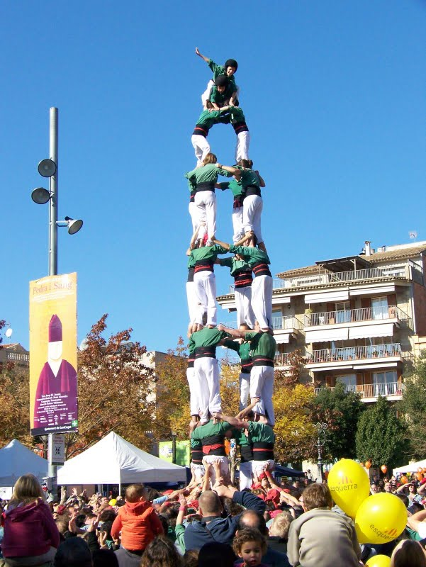 The first perfom where it was builded the human castle "4de8 carregat" by the "Colla dels Castellers de Sant Cugat"